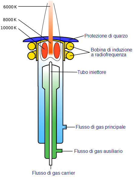 Italian version of File:ICP-Brennerduese.png.